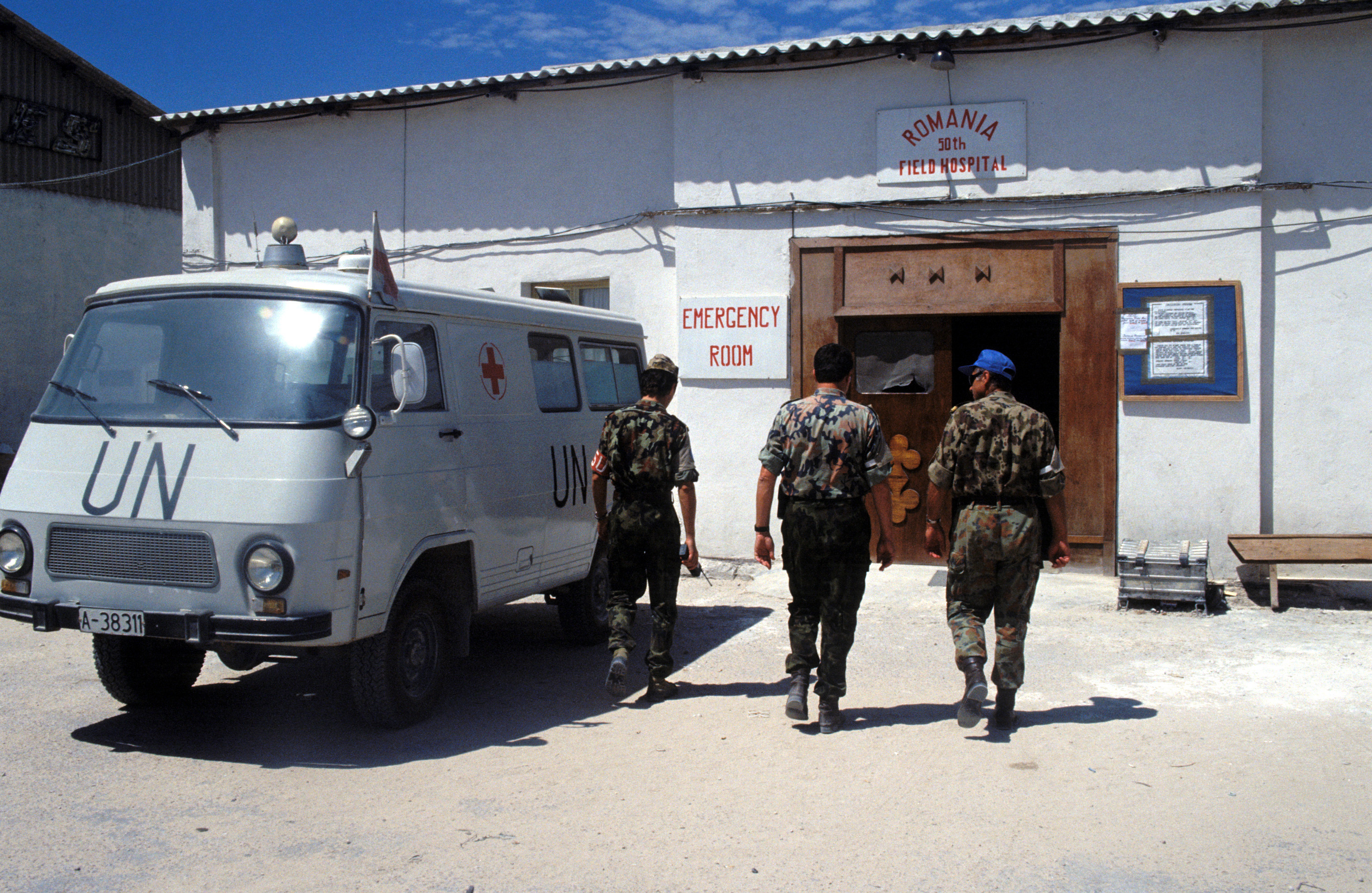 An ambulance is backed up to the Emergency Room entrance to the United Nations field hospital in Mogadishu. The hospital is administered by the Romanians (Romanian Rocar T.V.-12 van).